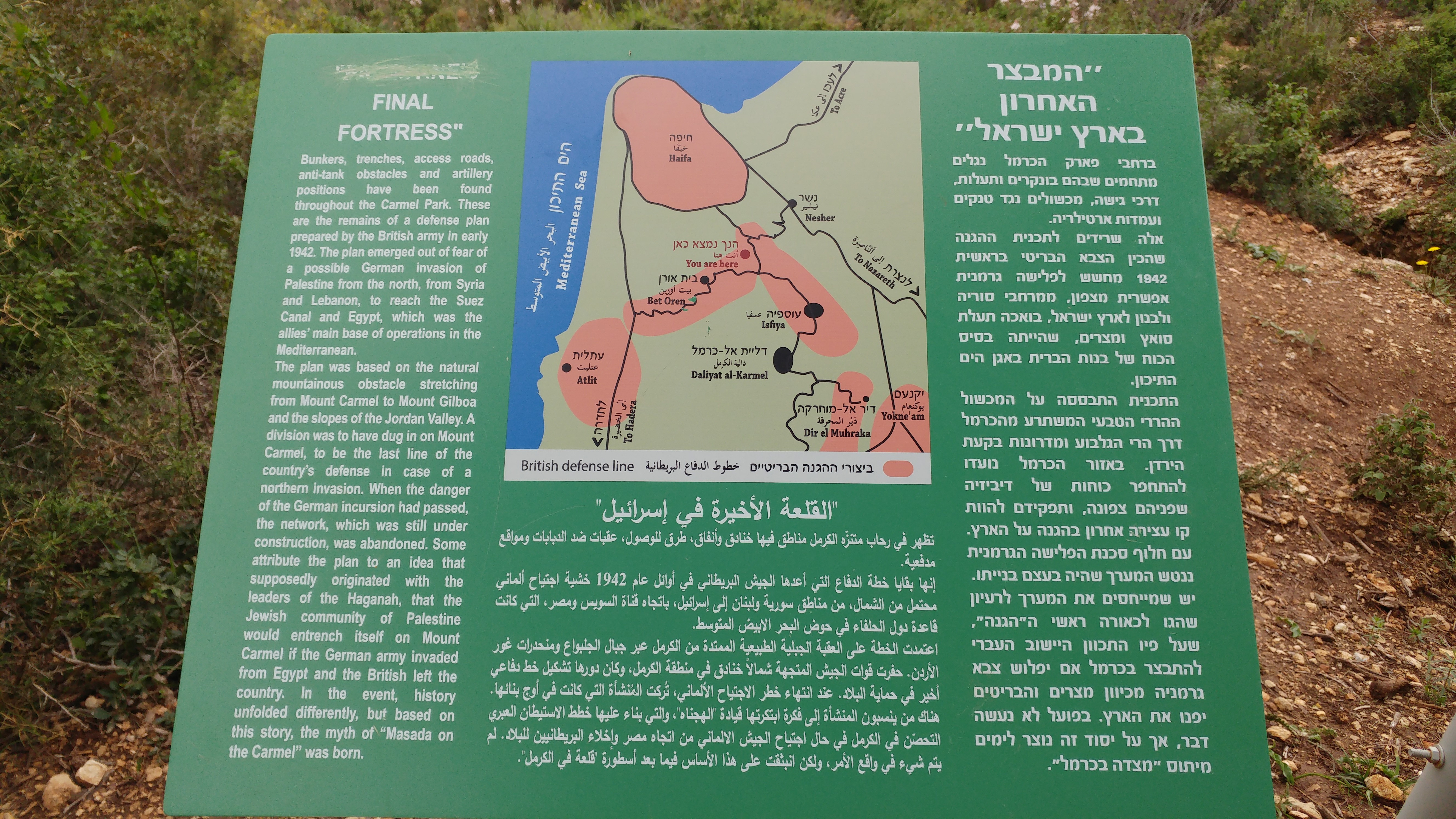 Palestine final fortress plan on Carmel mount.